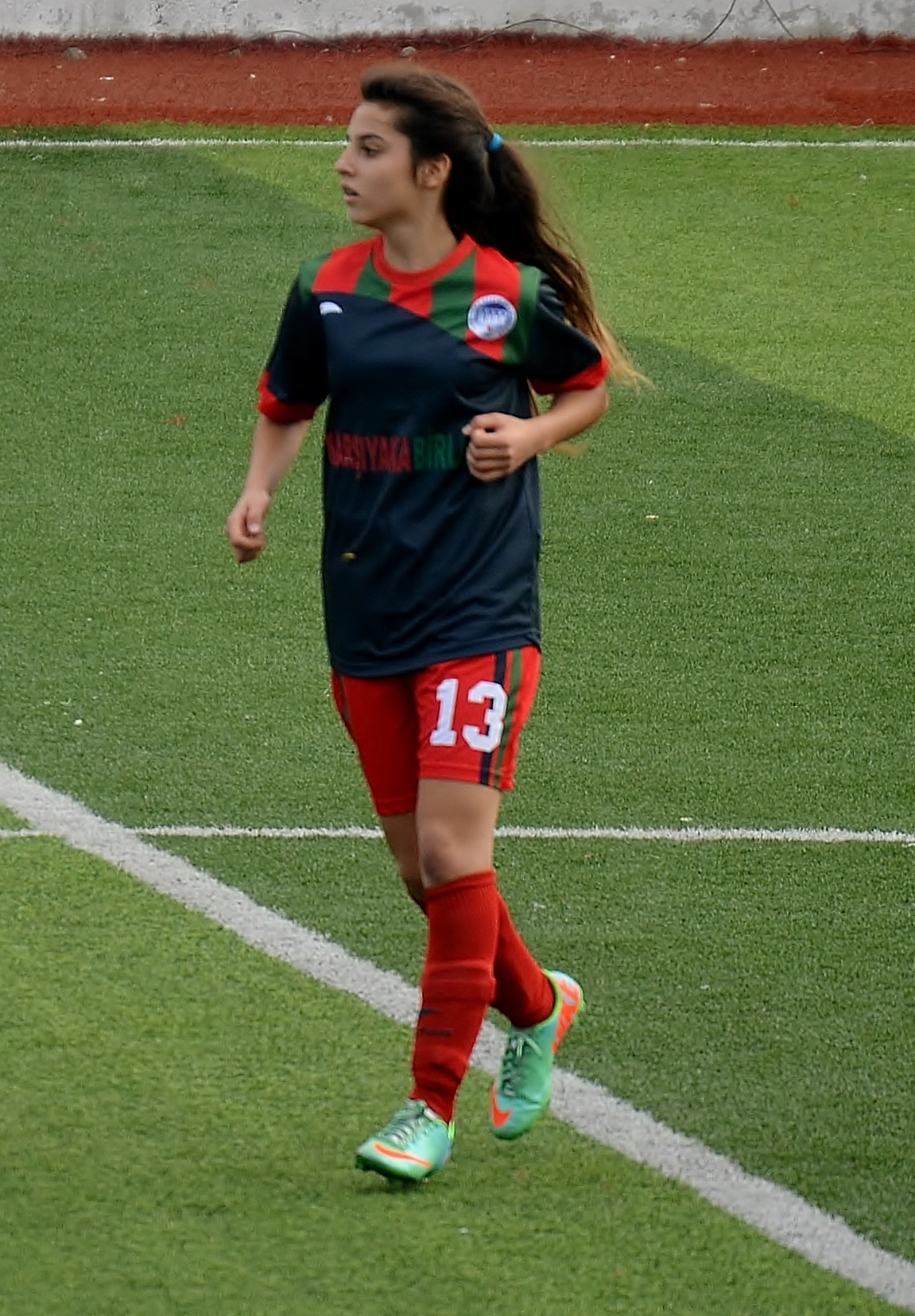 Başak Yerli playing for Karşıyaka BESEM Spor in the 2014-15 season